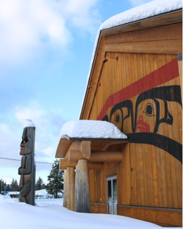 Terrace Campus